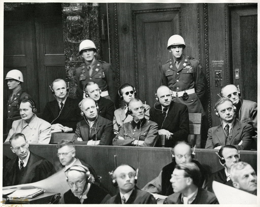 Nuremberg Trials defendants photographed in the dock, in two rows. Front row, left to right: Hermann Goering, Joachim von Ribbentrop, Wilhelm Keitel, and Alfred Rosenberg. Back row, left to right: Karl Doenitz, Erich Raeder, Baldur von Schirach, Fritz Sauckel, and Alfred Jodl. Gelatin silver process on paper. 28 x 35.4 cm. Image courtesy of the Harvard Law School Library, Harvard University, Cambridge, Mass.